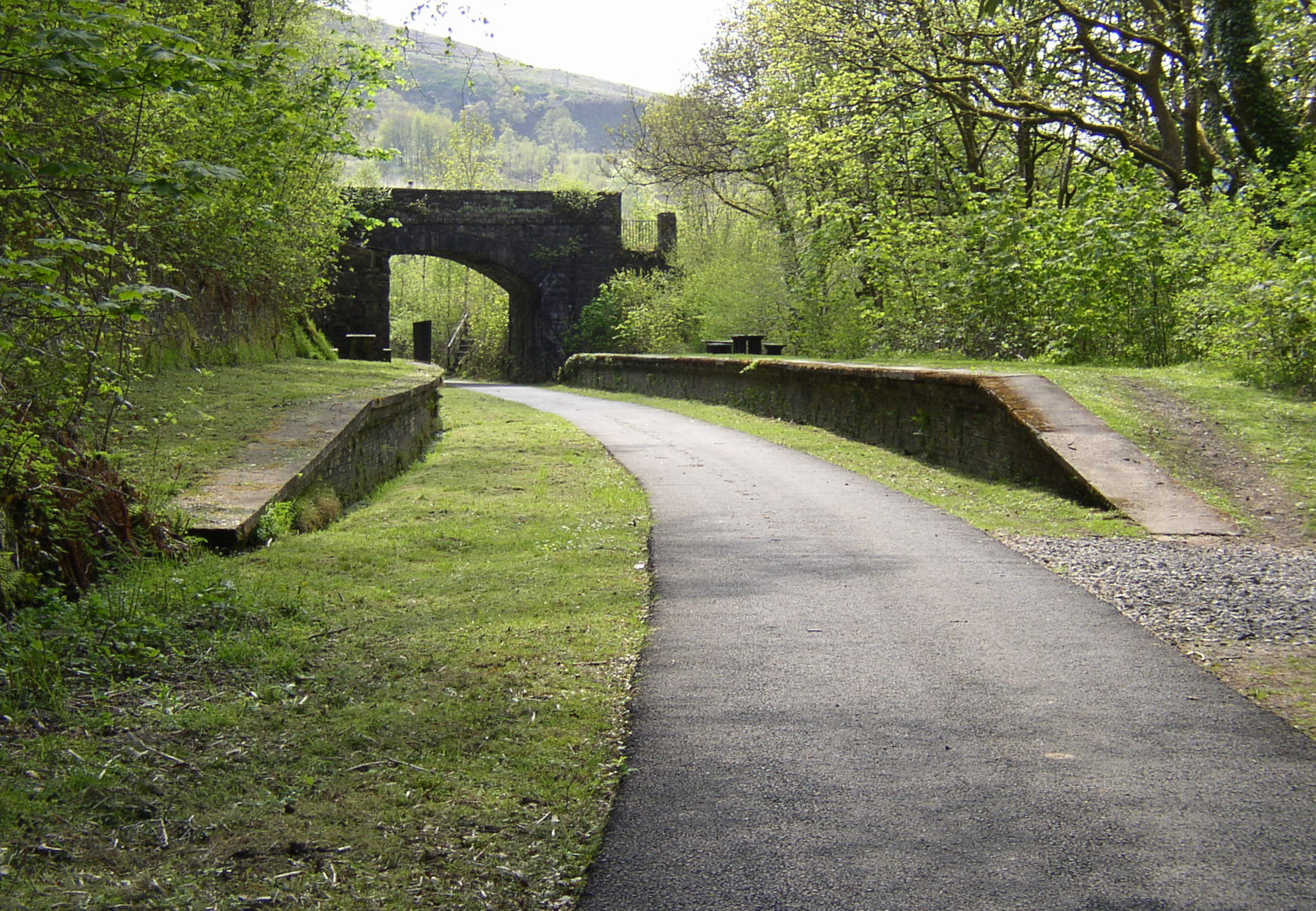 Cynonville railway station. This station was on the former Rhondda & Swansea Bay Railway, now a cycle track.